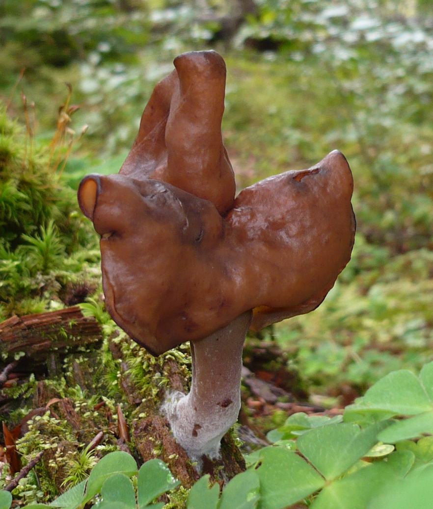 Gyromitra infula (Schaeff.) Quél. Photographed in nature reserve zofinsky prales, Zofin, Southern Bohemia, Czech Republic.